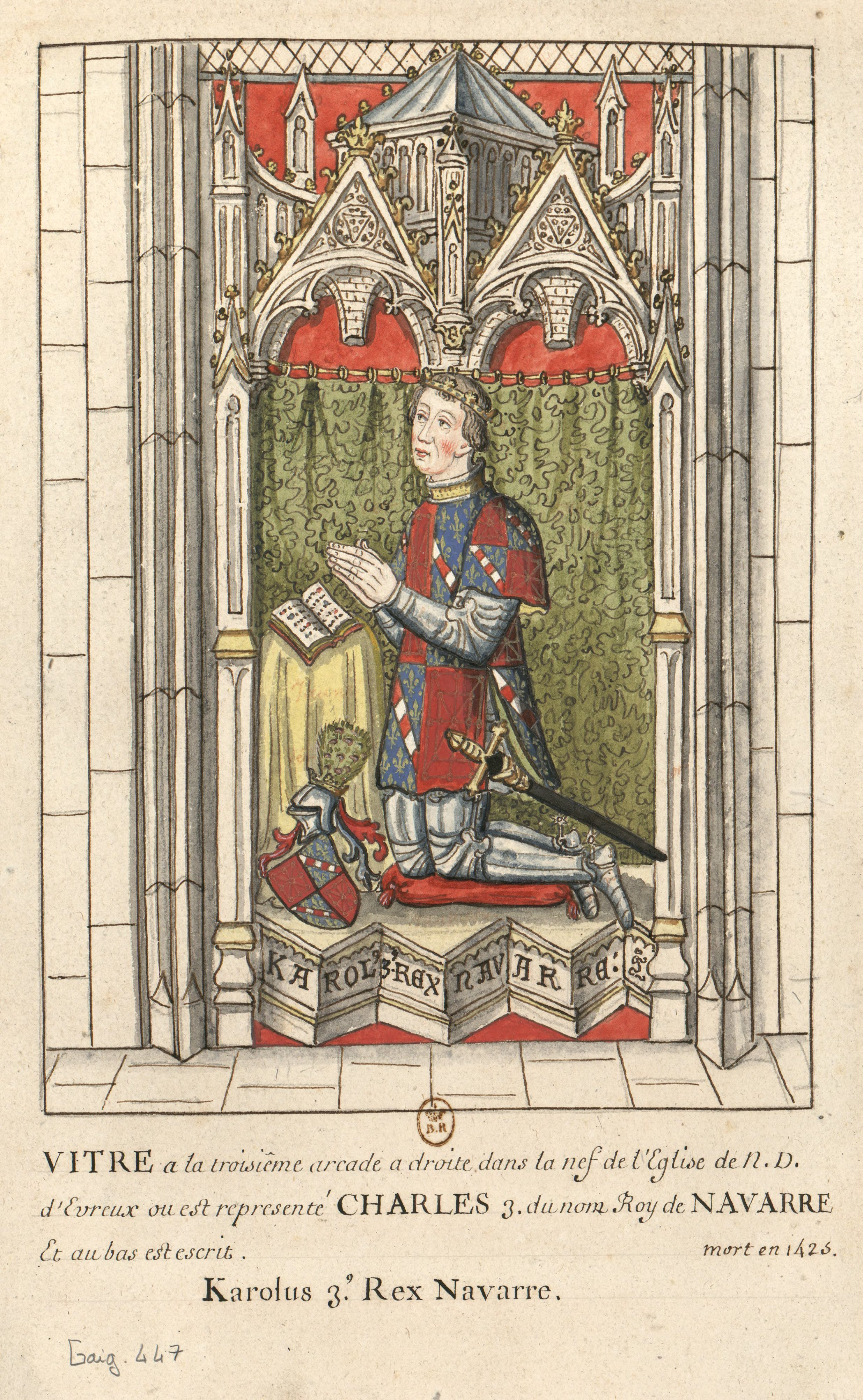 Charles III of Navarre